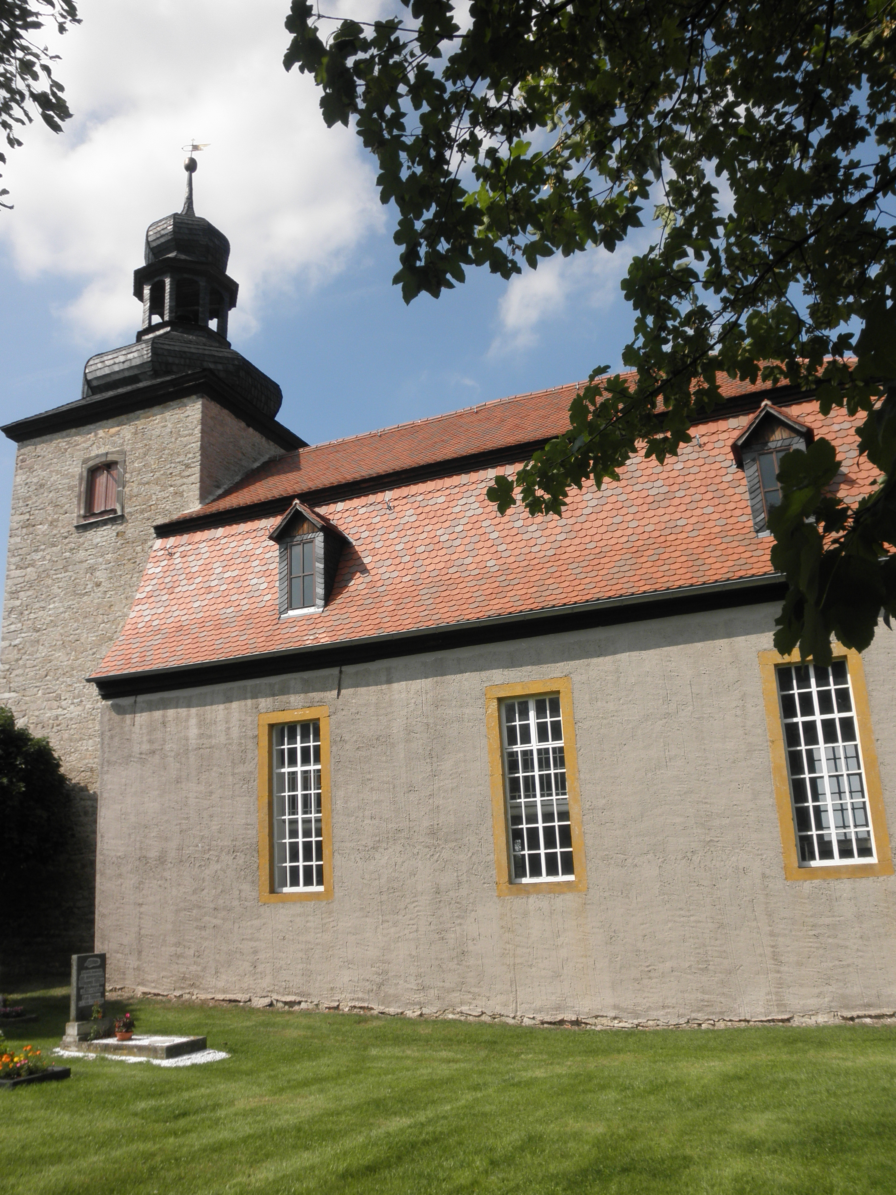 Church in Ottmannshausen in Thuringia